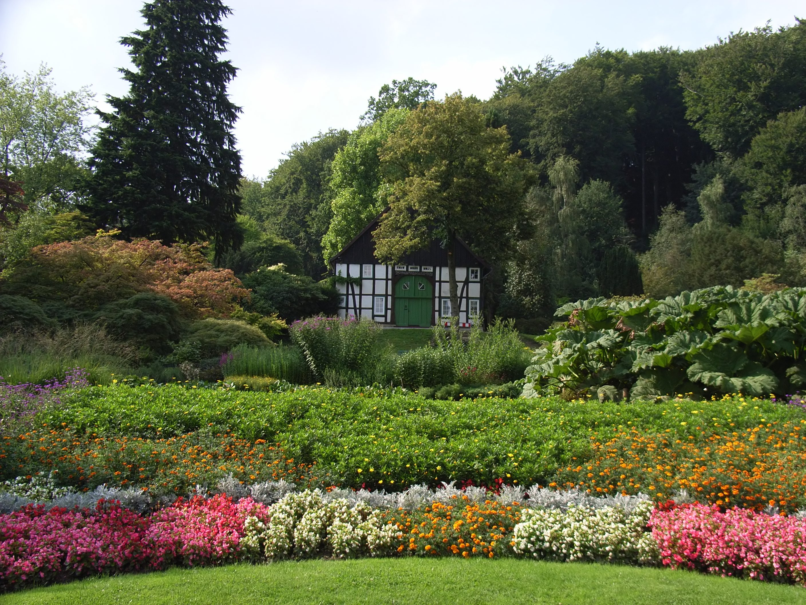 Bielefeld, Germany: Botanical garden.